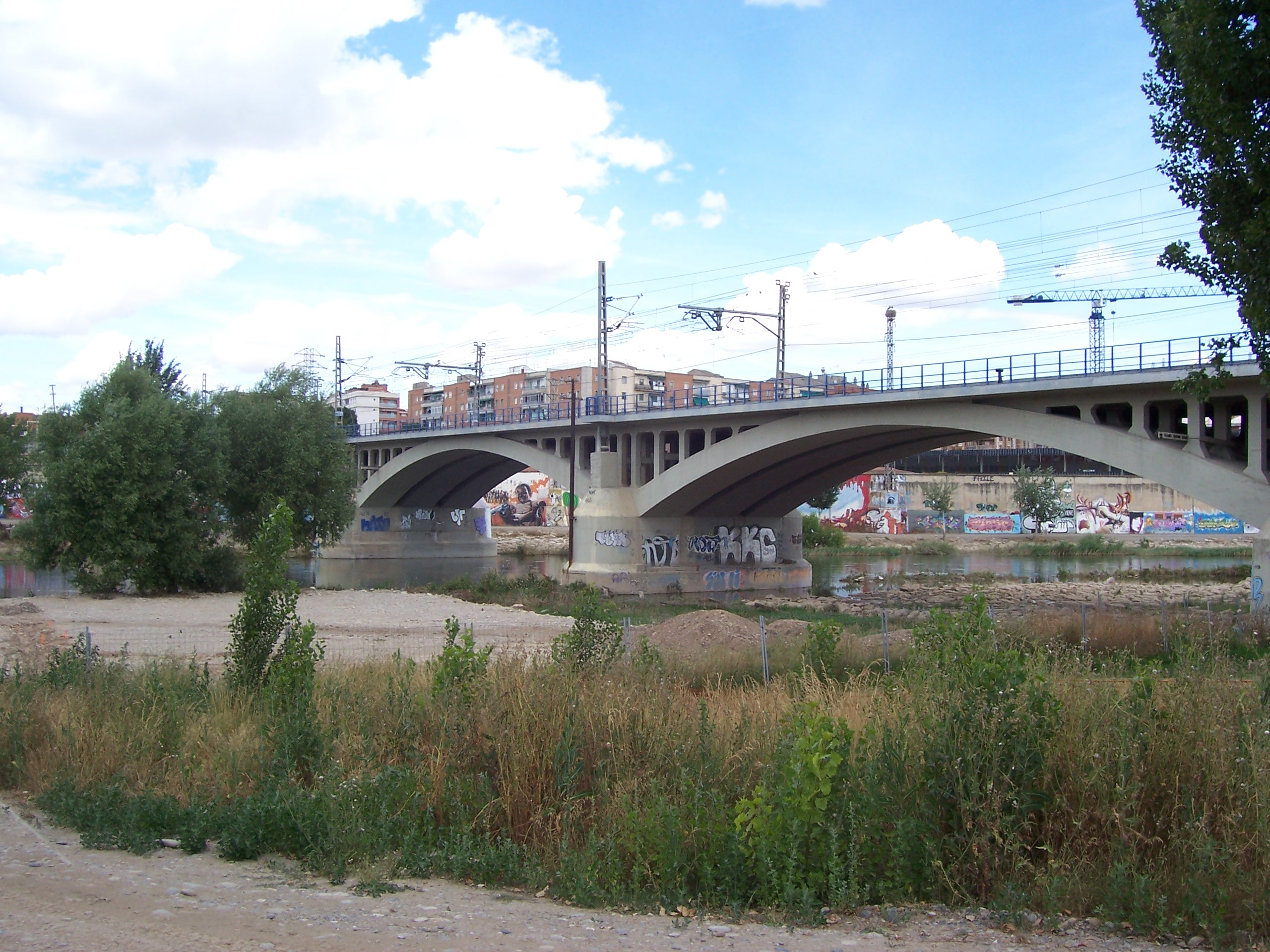 Lleida railroad bridge.